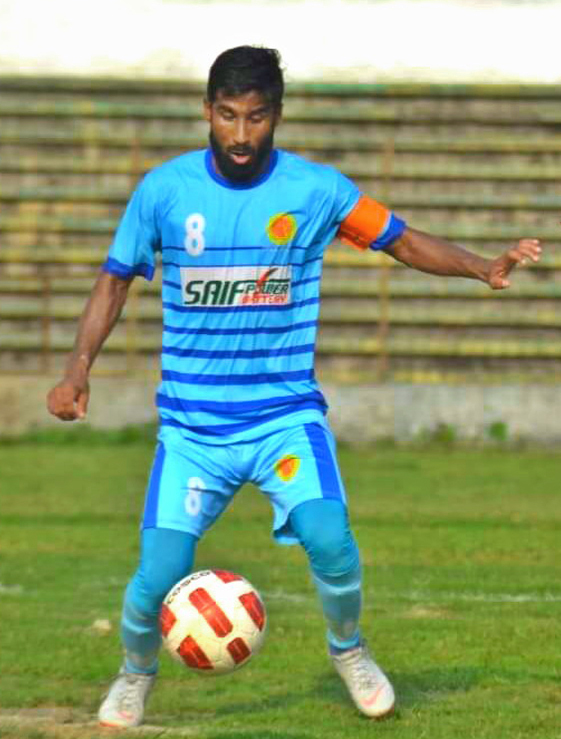 Monaem Khan playing for Chittagong Abahani in 2019